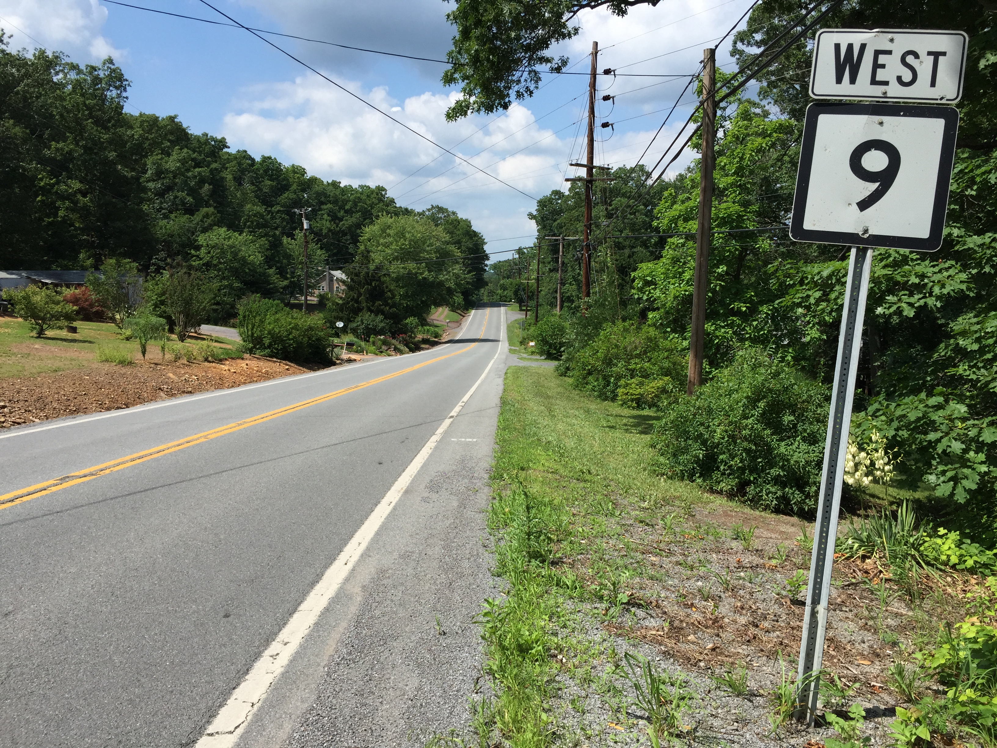 View west along West Virginia State Route 9 (Martinsburg Road) near Kennys Lane in eastern Morgan County, West Virginia